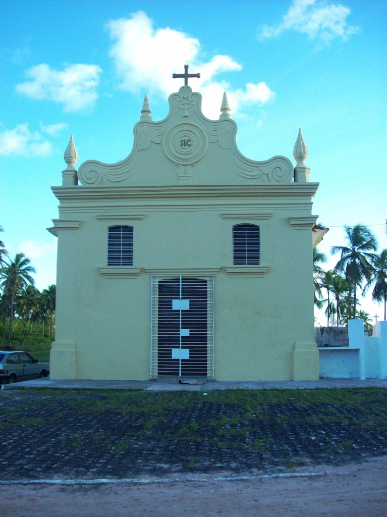 Pitimbue Beach